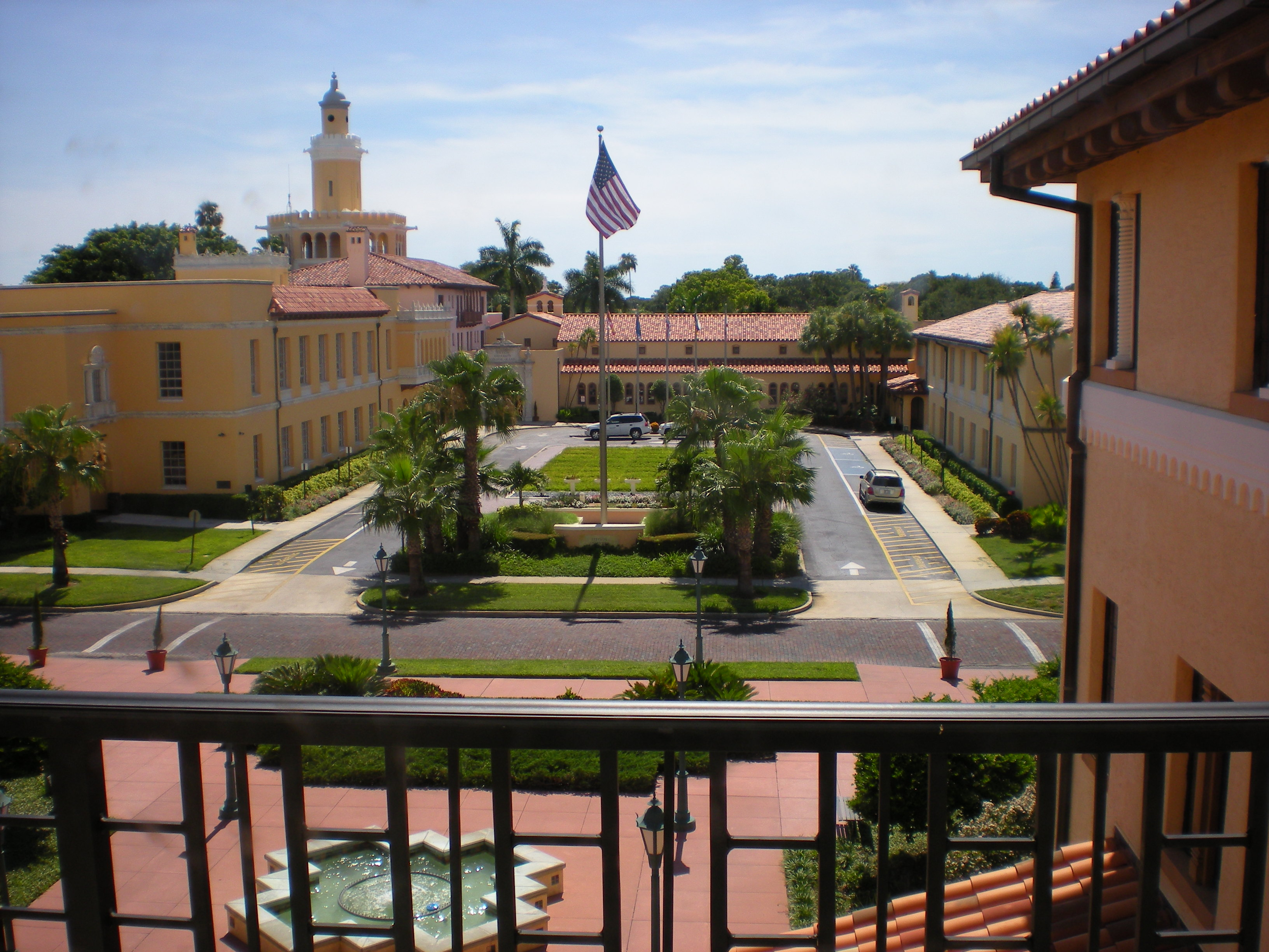 Stetson Law School Main Campus looking from the Library